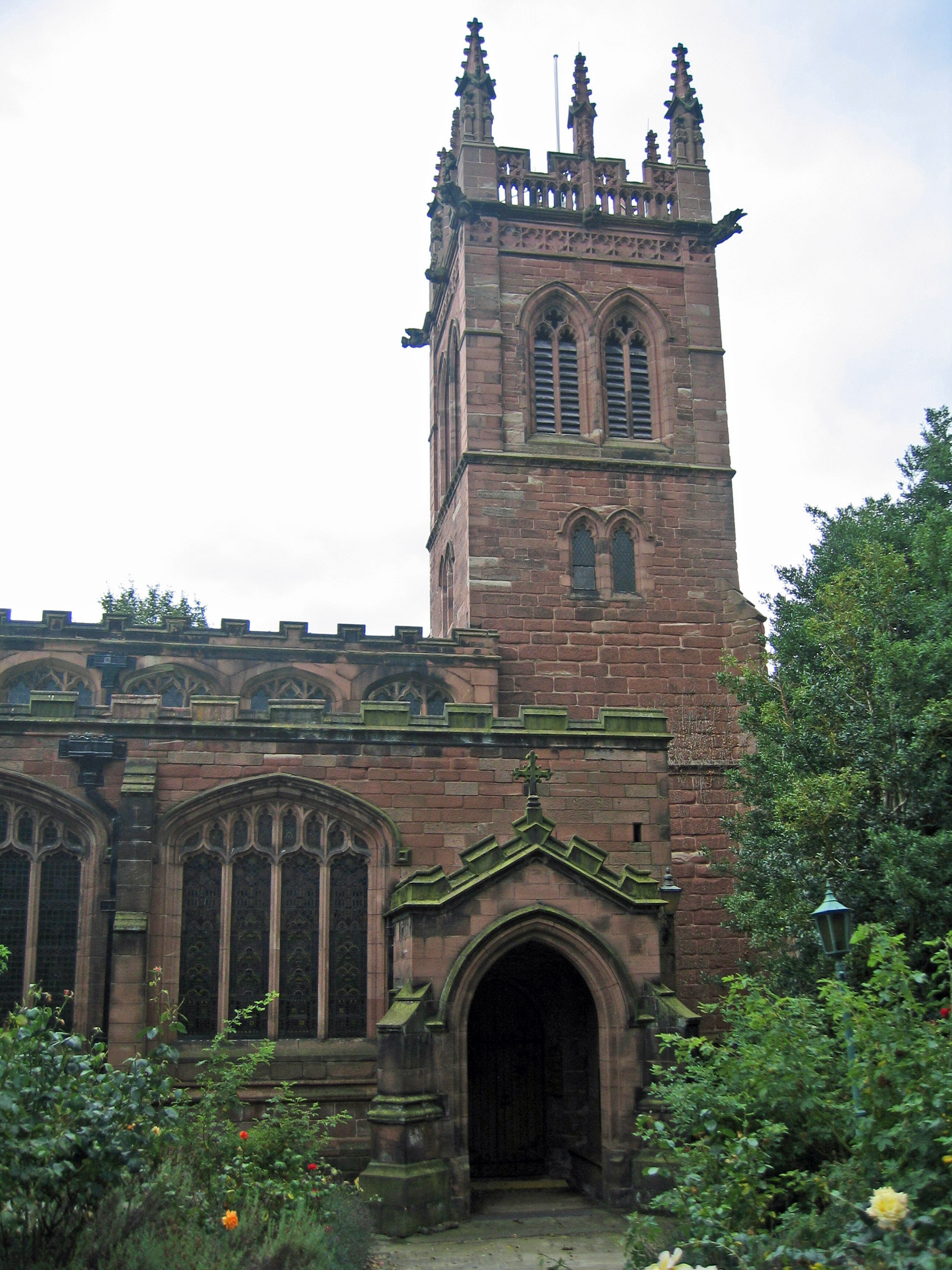 Photograph of the Church of St Mary-on-the-Hill, Chester, Cheshire, England